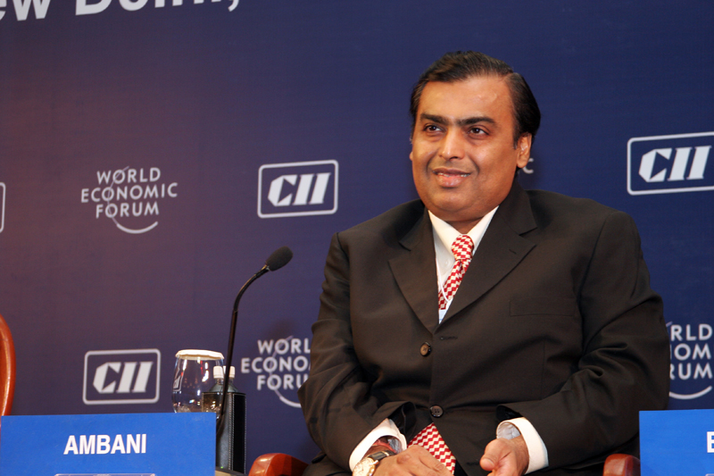 Mukesh Ambani during World Economic Forum 2007